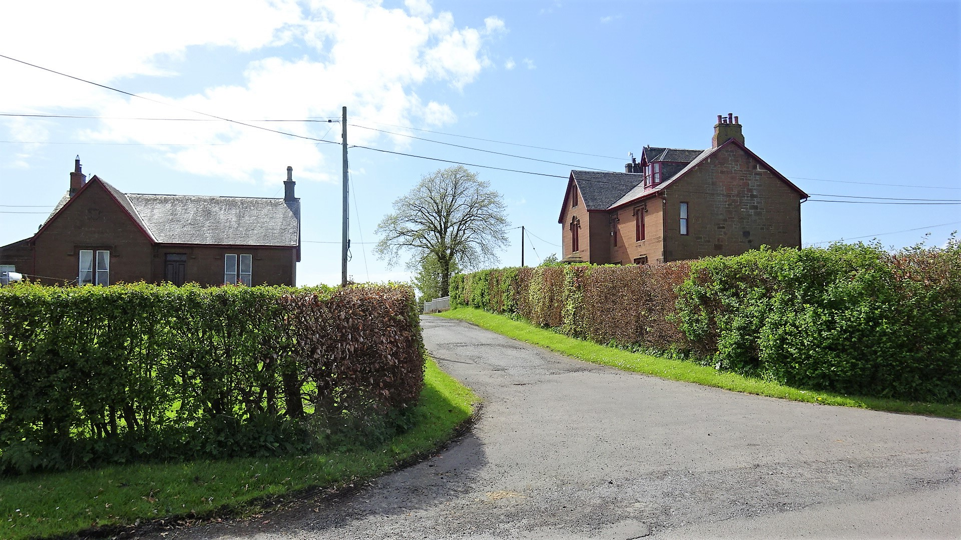 Earlston, East Ayrshire - view at entrance lane to Todrigs Farm. Old curling pond was at the farm.